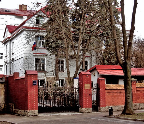 Russian Consulate General in Lviv, Western Ukraine